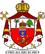 The Coat of arms of Melkite Bishop John Adel Elya